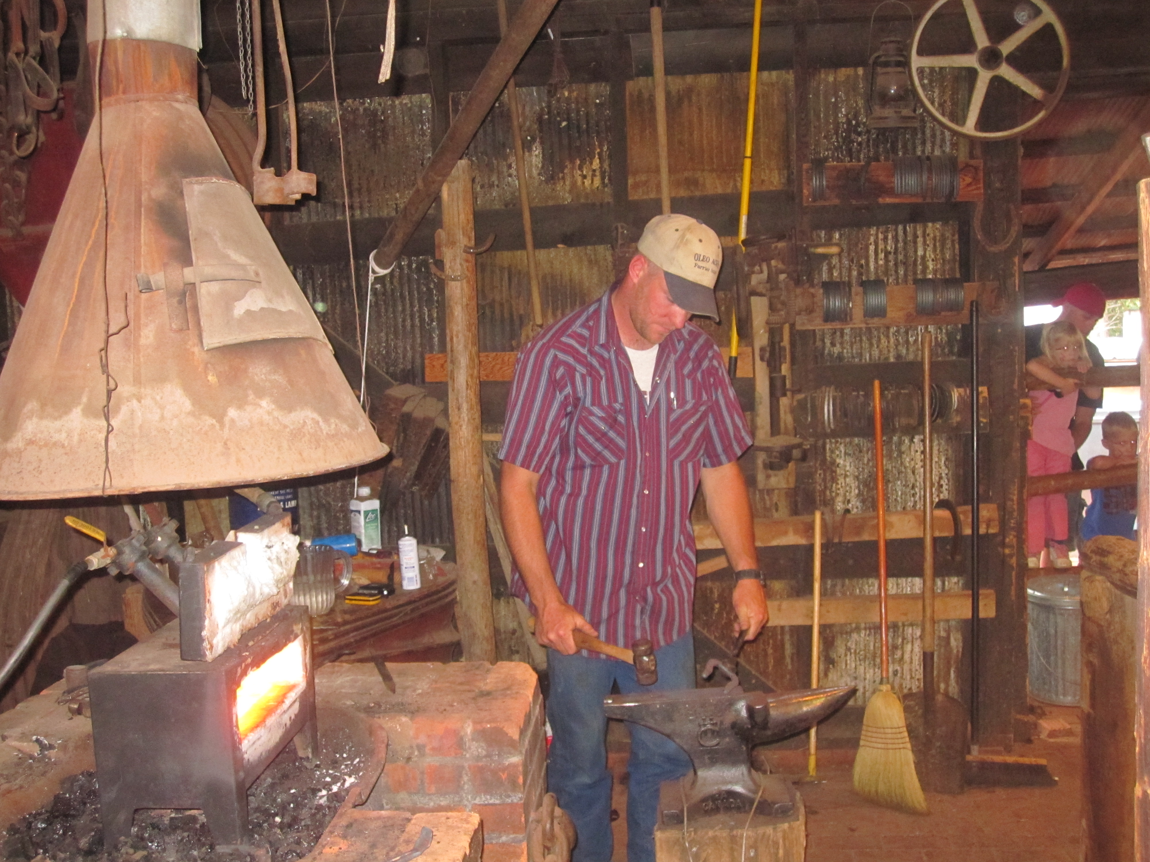 I took photo with Canon camera in CO Springs, CO.